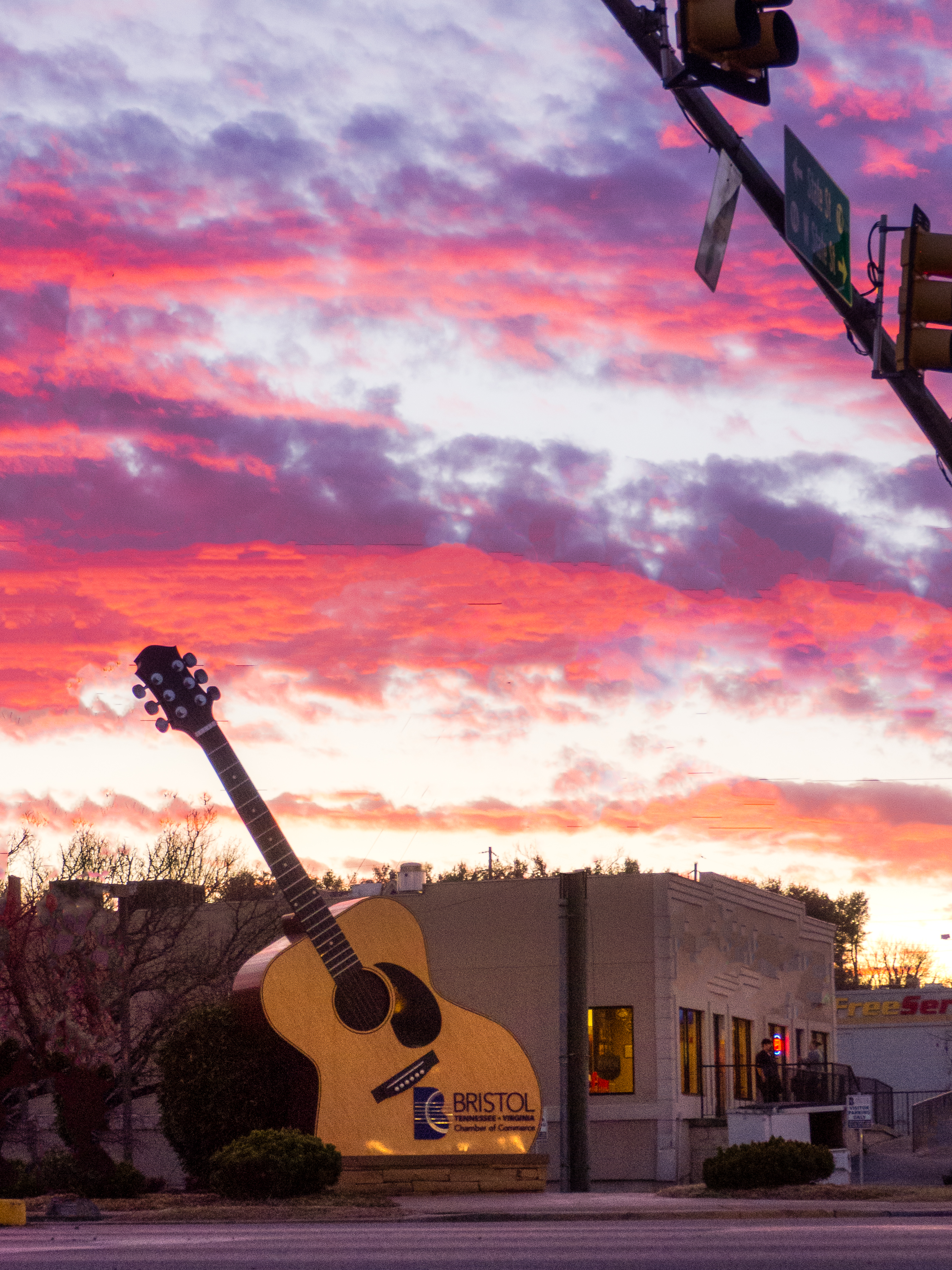 Bristol, Tennessee Guitar at the corner of State Street and Volunteer Parkway.